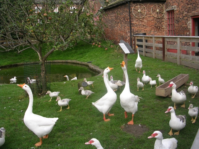 Temple Newsam - Home Farm - Duck Pond + Ducks!